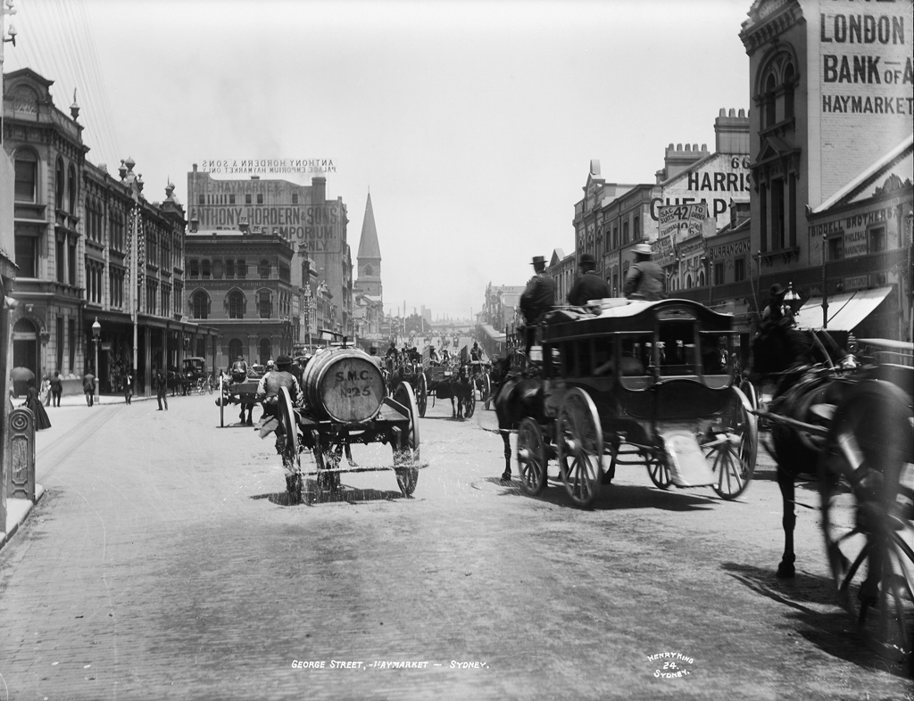 Format: Glass plate negative. Repository: Tyrrell Photographic Collection, Powerhouse Museum Part Of: Powerhouse Museum Collection General information about the Powerhouse Museum Collection is available at Persistent URL: [1] Acquisition credit line: Gift of Australian Consolidated Press under the Taxation Incentives for the Arts Scheme, 1985